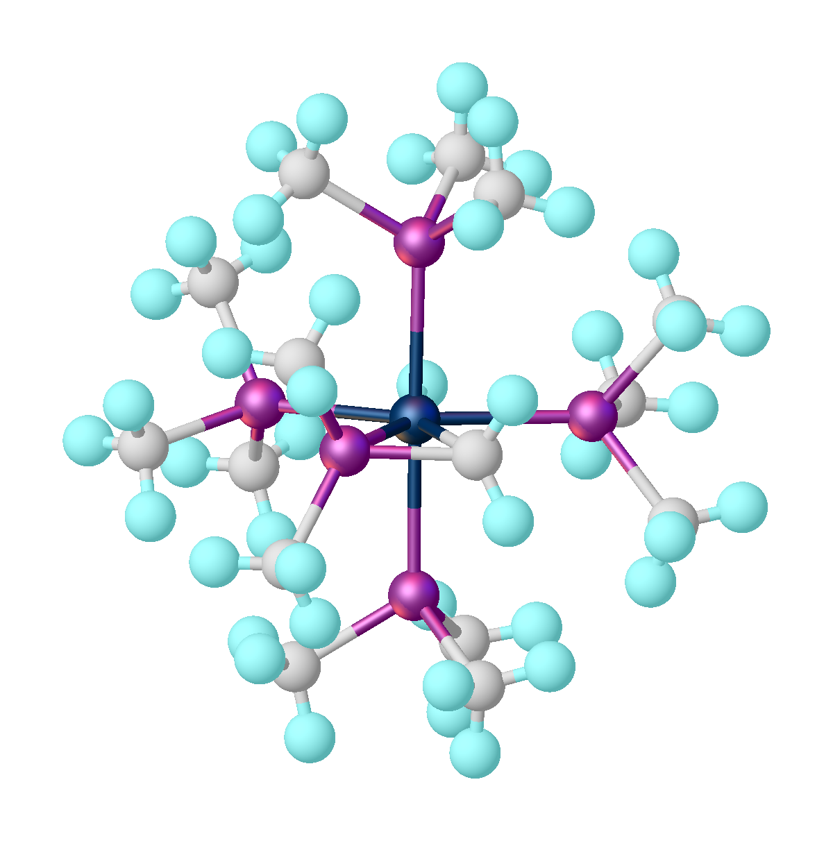 Structure of HW(PMe3)4(Me2PCH2), "W(PMe3)5"